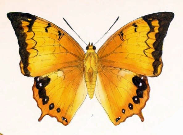 Haridra kahruba